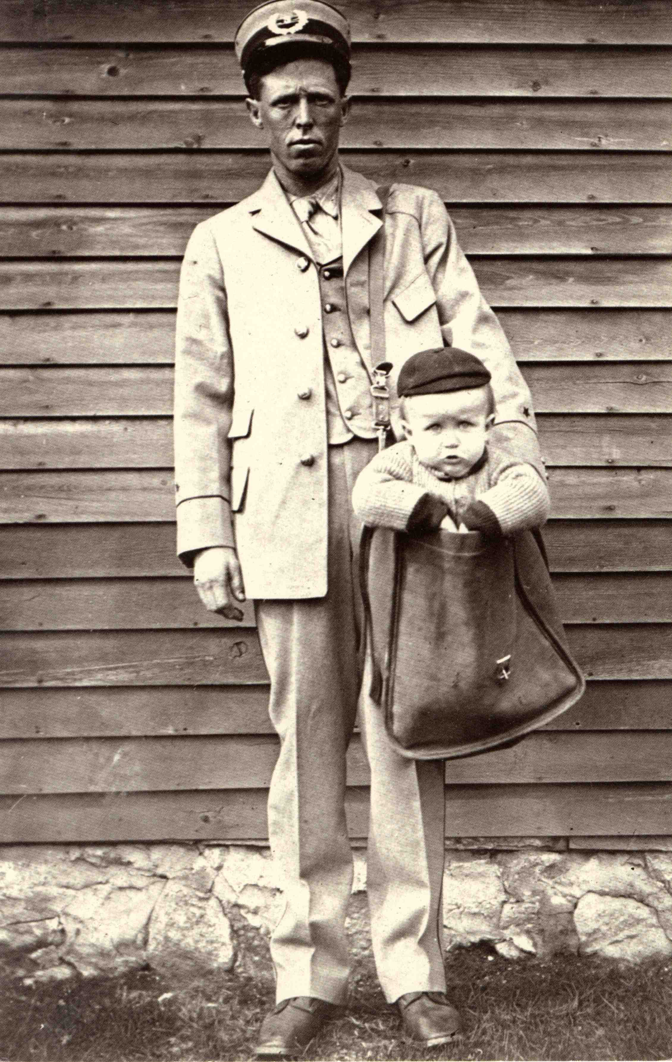 This city letter carrier posed for a humorous photograph with a young boy in his mailbag. After parcel post service was introduced in 1913, at least two children were sent by the service (with stamps attached to their clothing, the children rode with railway and city carriers to their destination). The Postmaster General quickly issued a regulation forbidding the sending of children in the mail after hearing of those examples.